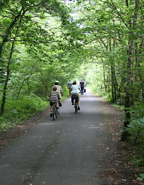 On the Cycleway The Plym Valley cycleway takes the path of a disused railway line.